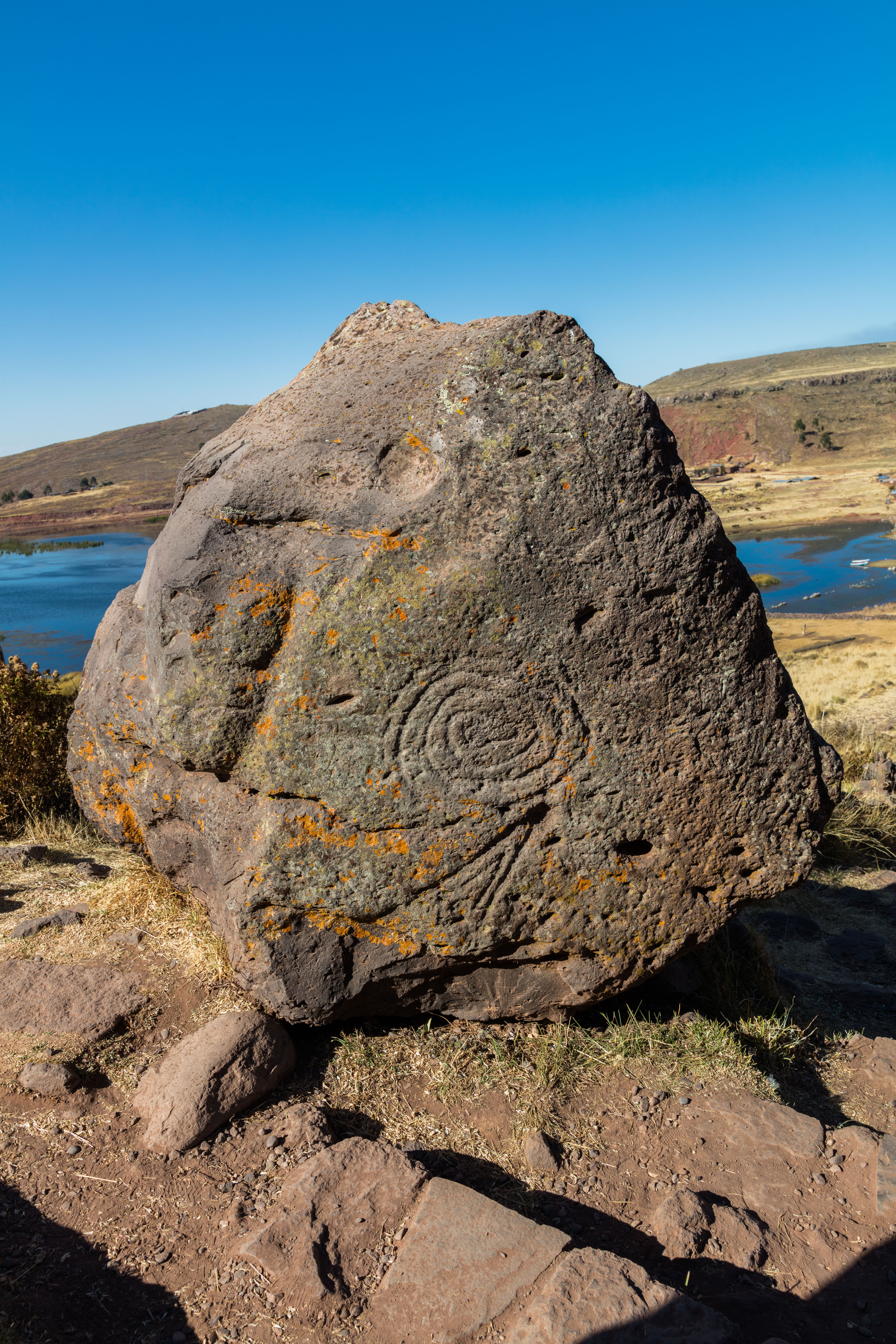 Petroglyph, Sillustani, Peru